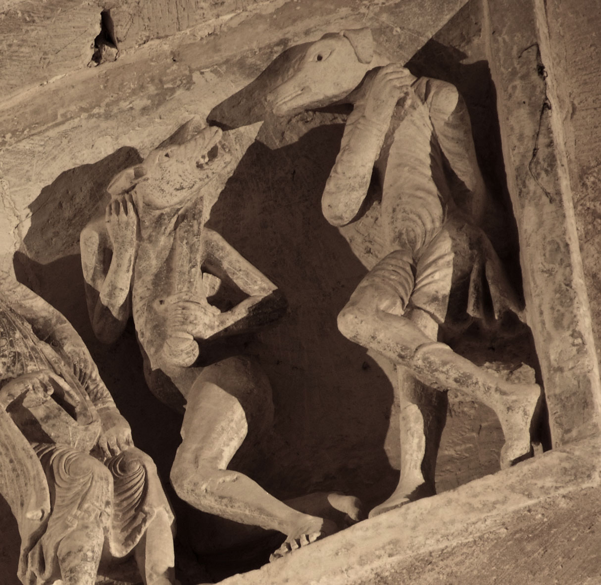 Cynocephaly Basilique Sainte-Marie-Madeleine de Vézelay